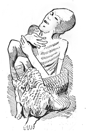 Illustration of an Aztec mummy.